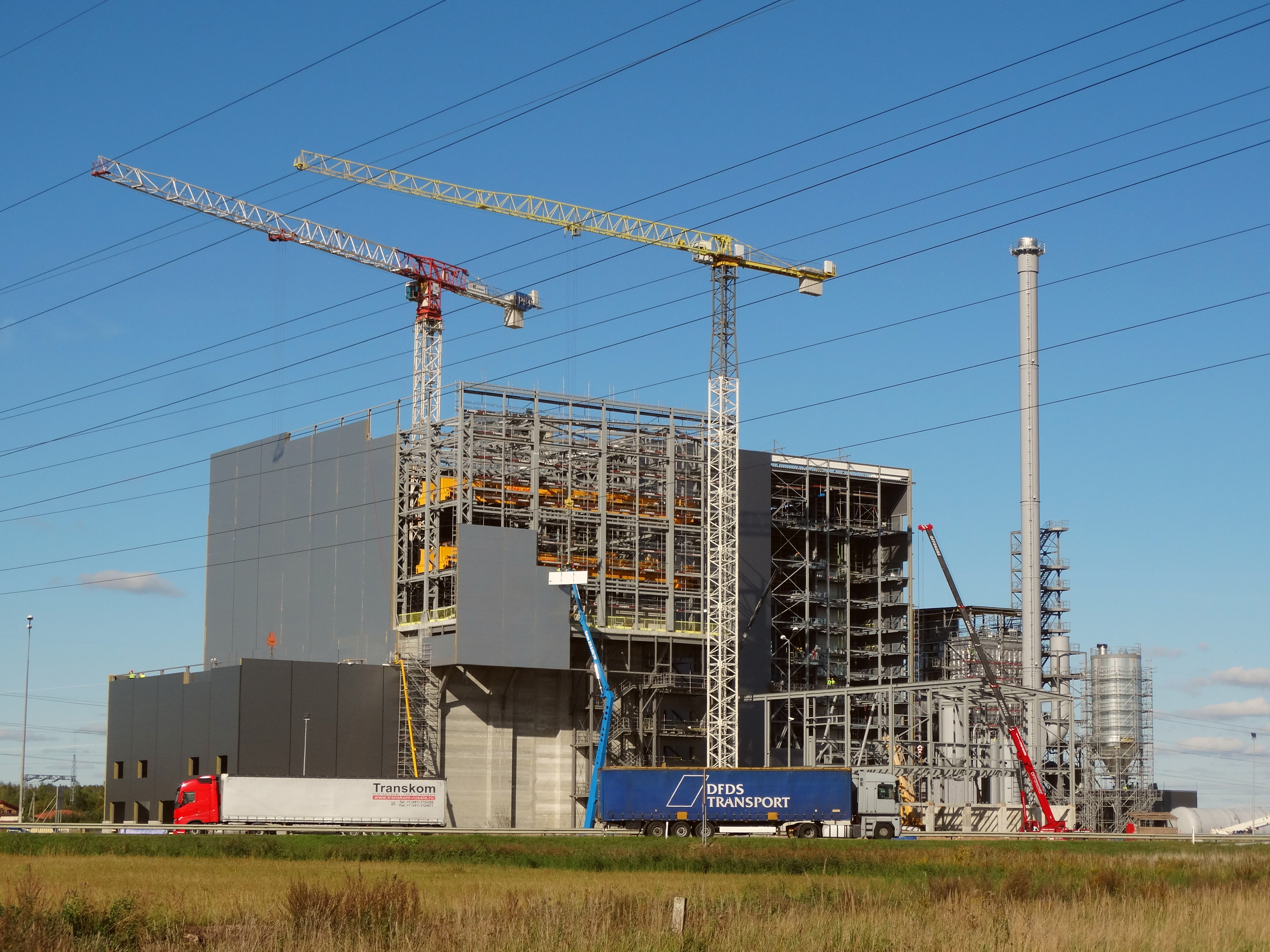 Kaunas cogeneration power plant, construction site, Lithuania